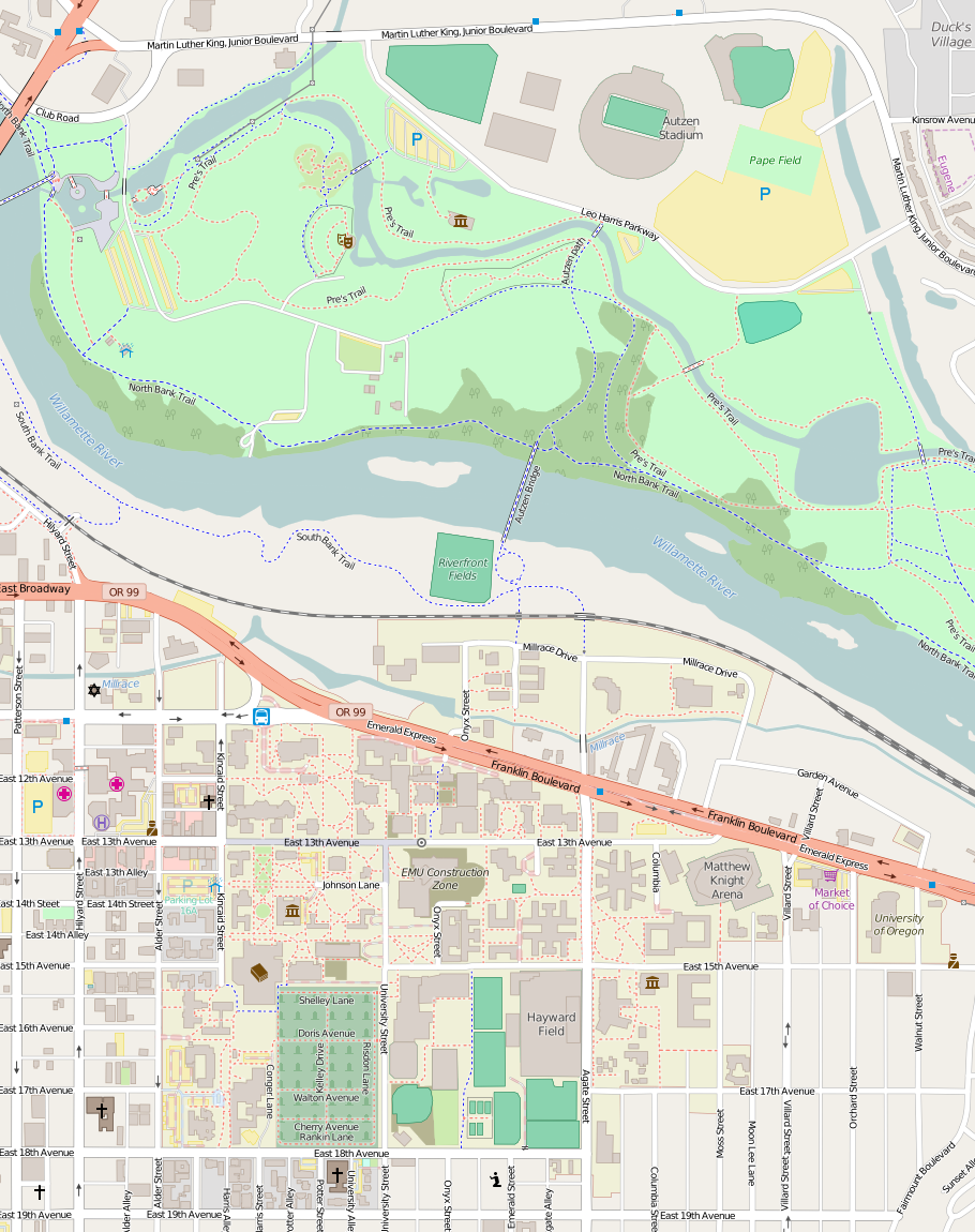 Map of the University of Oregon campus, Eugene Oregon. This map of University_of_Oregon was created from OpenStreetMap project data, collected by the community. This map may be incomplete, and may contain errors. Don't rely solely on it for navigation.